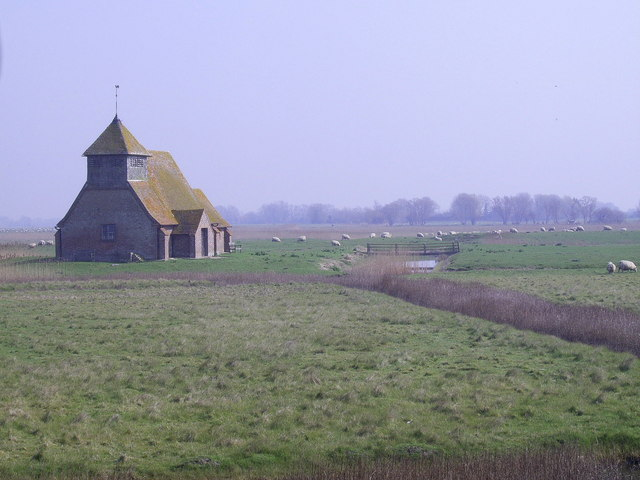 St. Thomas Beckett, Fairfield, Kent Another photo of this famous marshlamd church, this time on a hazy March morning.